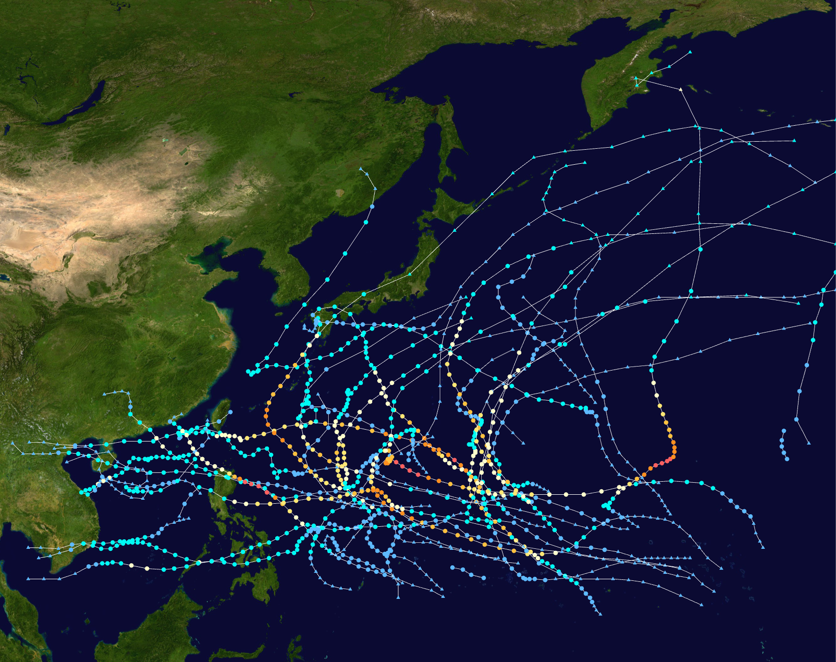 This map shows the tracks of all tropical cyclones in the 1968 Pacific typhoon season. The points show the location of each storm at 6-hour intervals. The colour represents the storm's maximum sustained wind speeds as classified in the Saffir-Simpson Hurricane Scale (see below), and the shape of the data points represent the nature of the storm. Saffir–Simpson hurricane wind scale Tropical depression≤38 mph≤62 km/h Category 3111–129 mph178–208 km/h Tropical storm39–73 mph63–118 km/h Category 4130–156 mph209–251 km/h Category 174–95 mph119–153 km/h Category 5≥157 mph≥252 km/h Category 296–110 mph154–177 km/h Unknown Storm typeTropical cycloneSubtropical cycloneExtratropical cyclone / Remnant low / Tropical disturbance